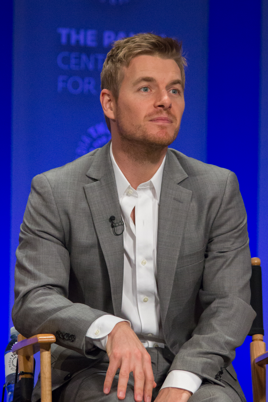 Rick Cosnett at the PaleyFest 2015 presentation for "The Flash"